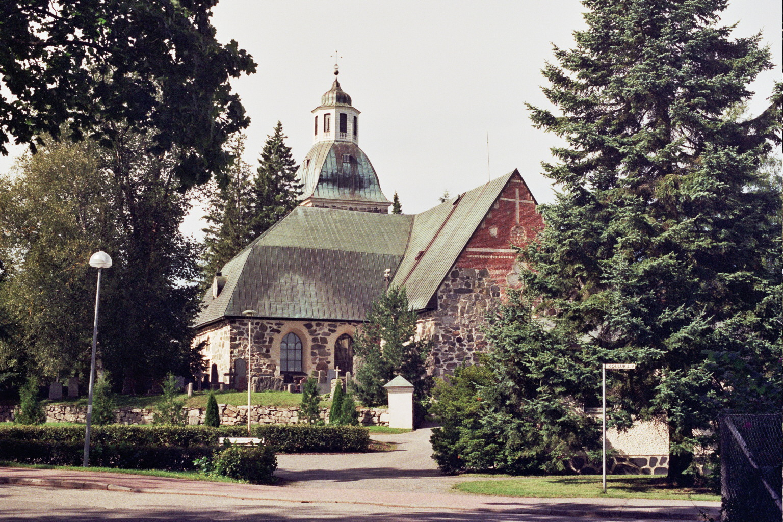 The church in Lauttakylä, Huittinen, Finland. The oldest part of the building was probably built in around 1495.